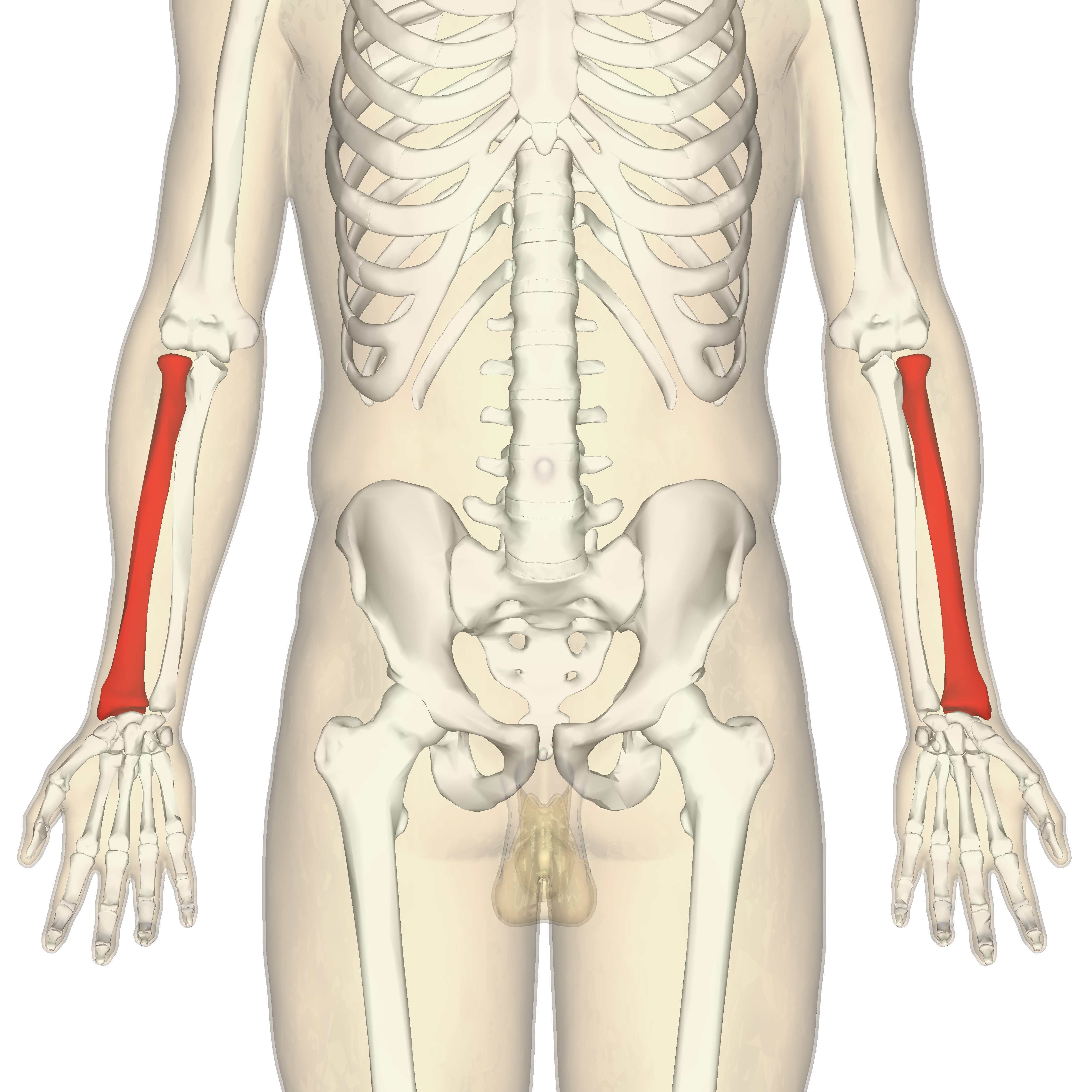 Radius.